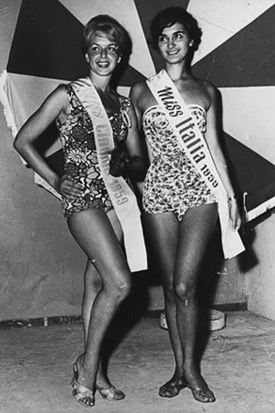 Italian model Maria Jossa (Naples 1938), Miss Italy 1959